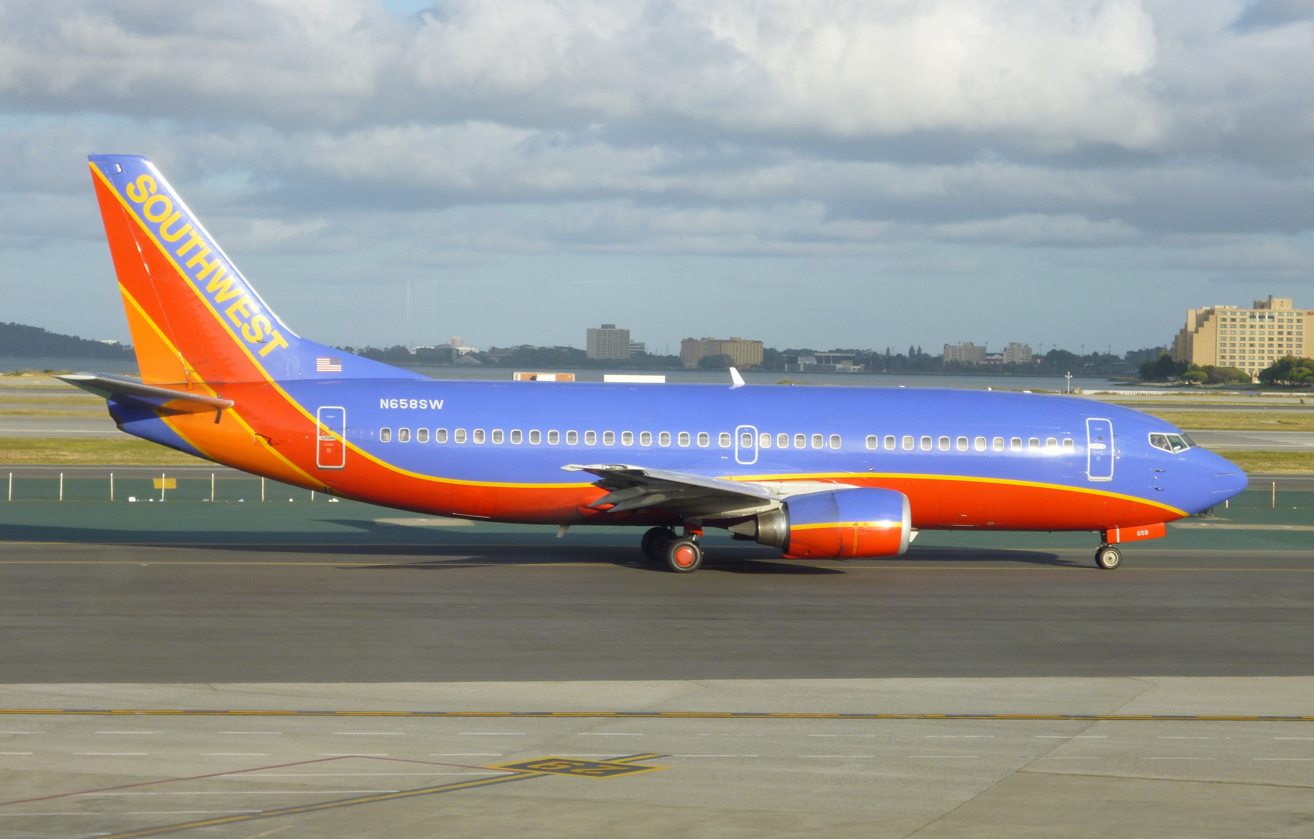 Southwest Airlines 737 number N658SW at San Francisco International Airport, USA